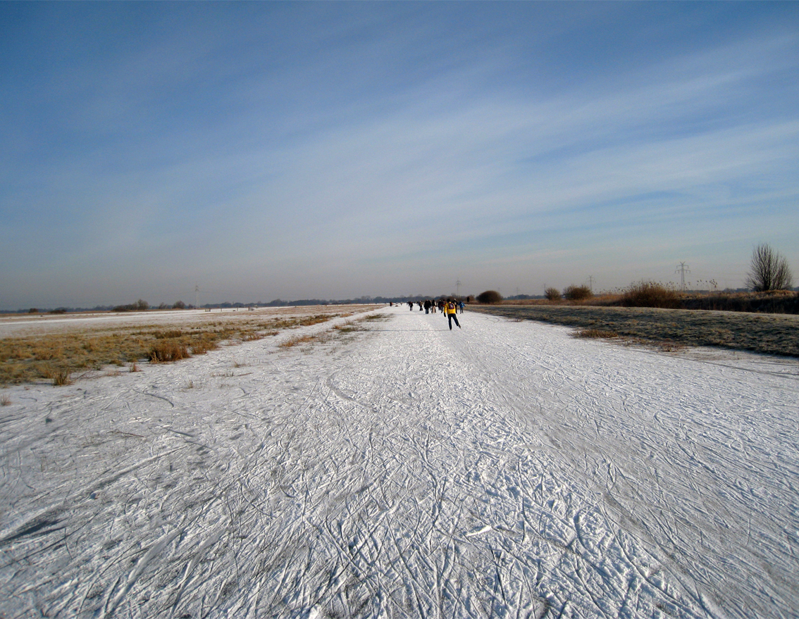 The natural ice rink at the Semkenfahrt in Blockland in Bremen, Germany.